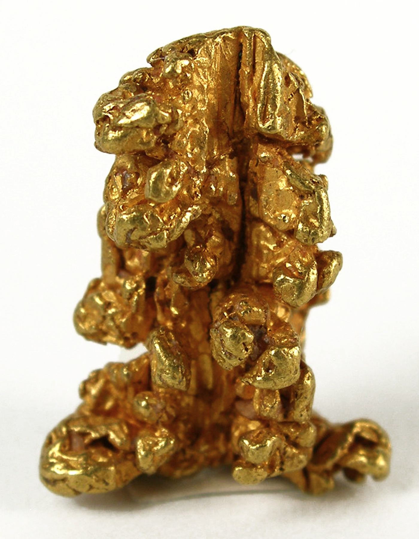 Gold Locality: Lena River Basin, Bulun District, Polar Yakutia, Saha Republic (Sakha Republic; Yakutia), Eastern-Siberian Region, Russia (Locality at ) Size: thumbnail, 1.8 x 1.4 x 0.8 cm Gold (cubic crystals) A remarkably elegant, complicated, cityscape like gold specimen composed ENTIRELY of rare cubic crystals in parallel growths. Perhaps, though I am not entirely sure, it consists of a central twinned core, on which small cubes have grown. In any case, a rare and superb gold thumbnail of unusual habit, from the reknowned F John Barlow gold collection (which was dispersed in 1998-1999). Mass is about 6 grams